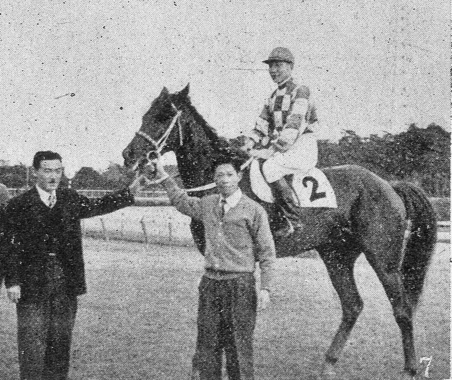 Shimayuki(horse)